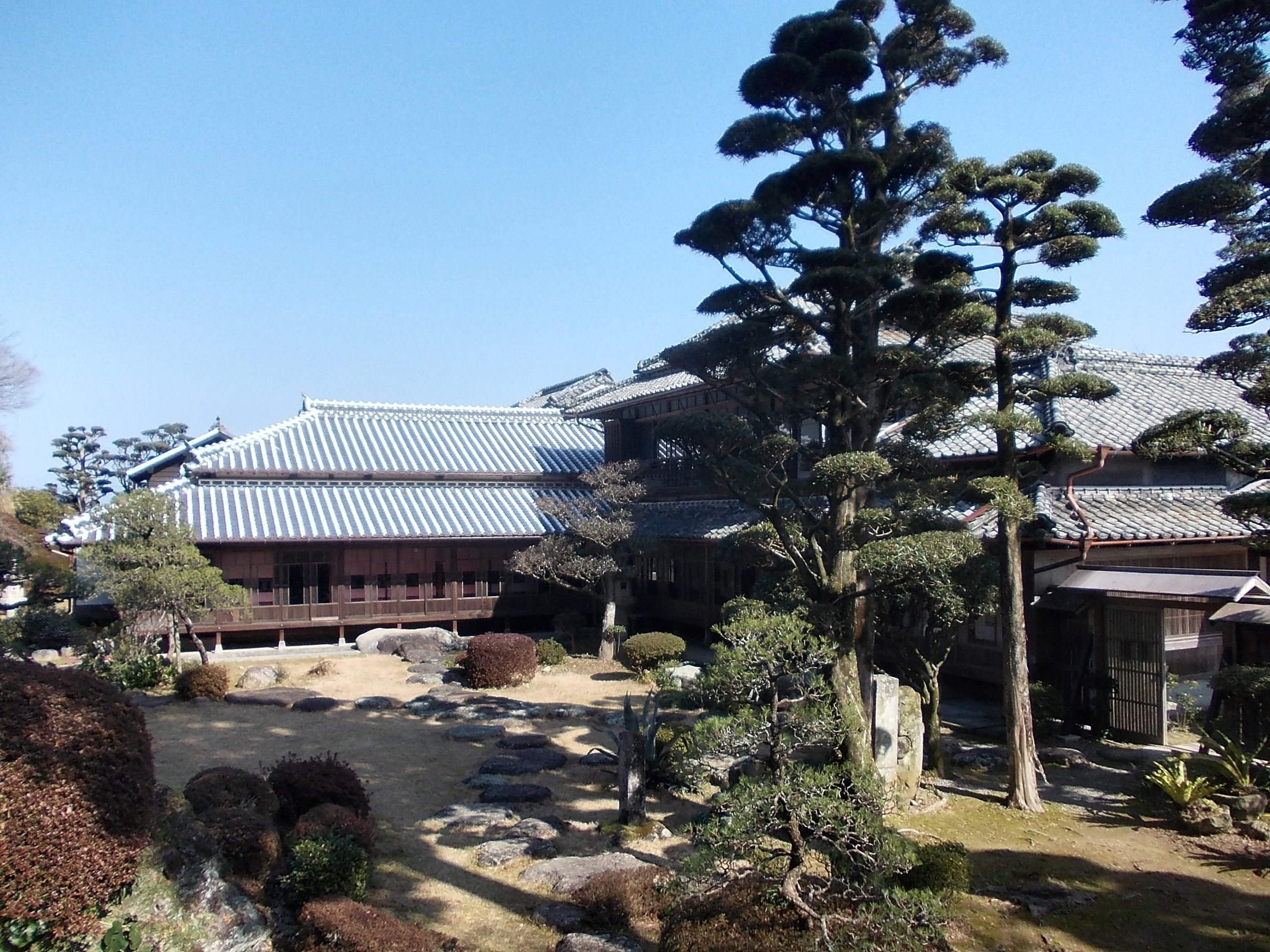 Kojirokuji Nabeshima Residence, Unzen, Nagasaki, Japan